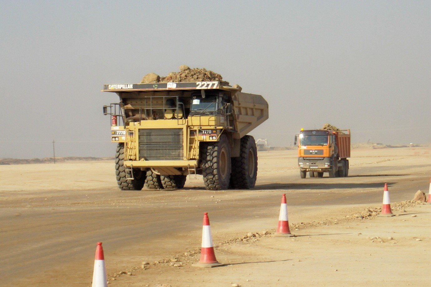 Caterpillar Dumper 777D, in Alguaire Airport building (Catalonia).